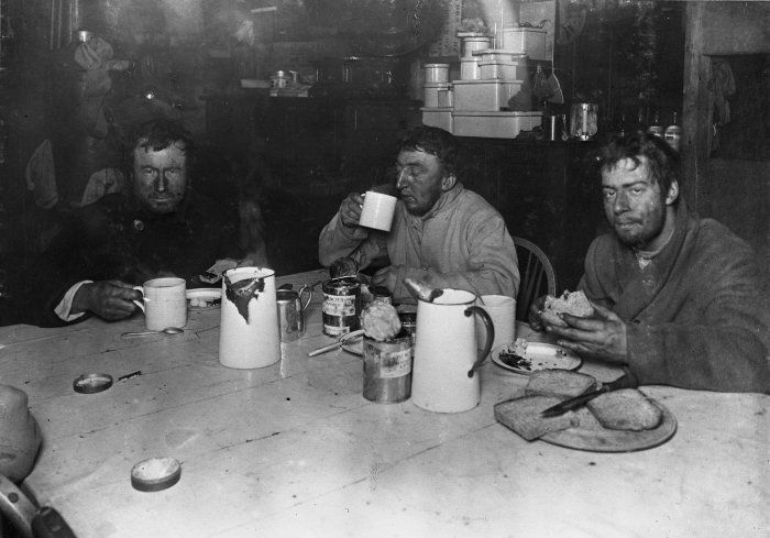 Edward Wilson, Henry Bowers and Apsley Cherry-Garrard after the return from their trip to Cape Crozier